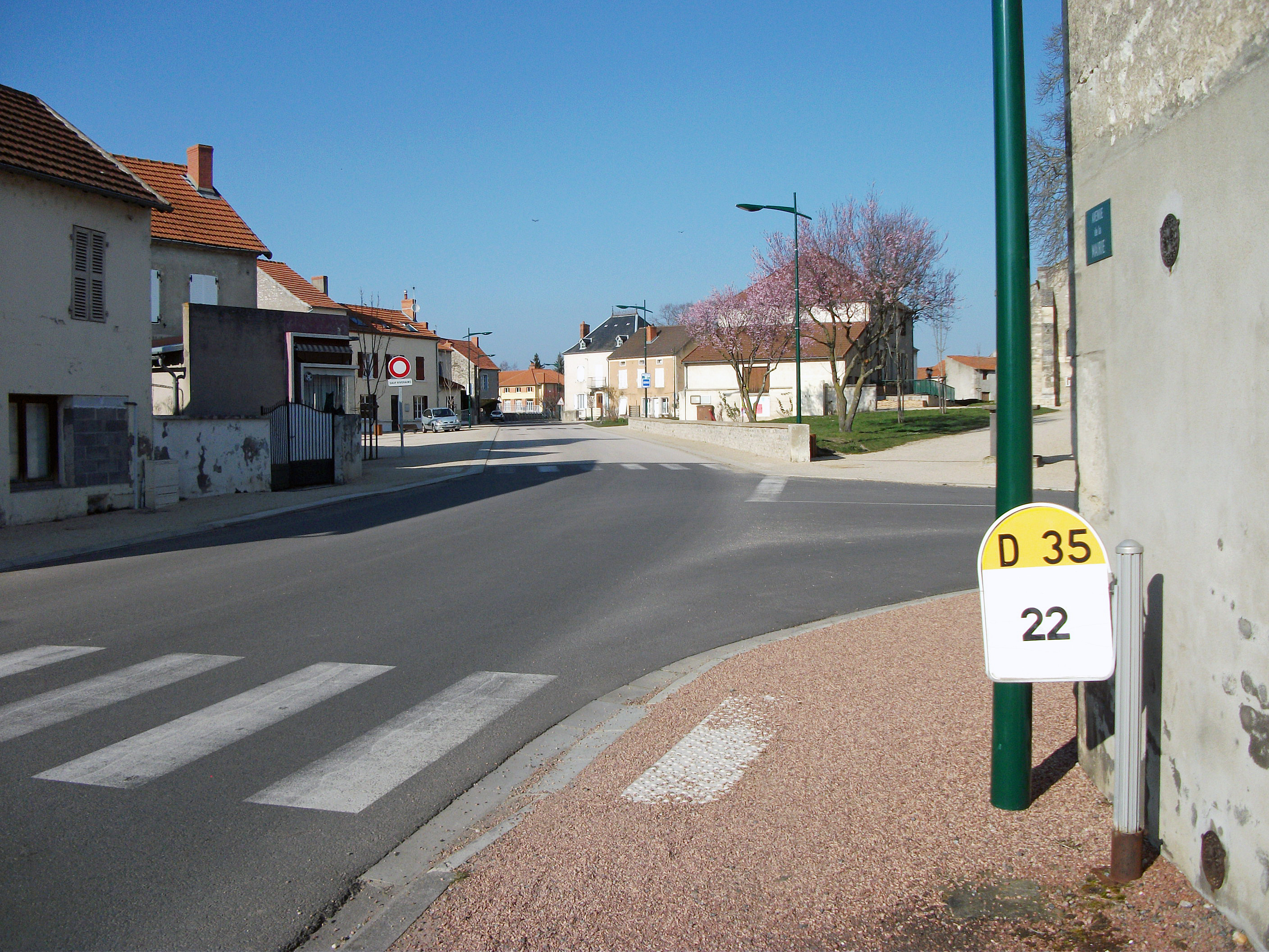 Avenue de la Mairie (departmental road 35) in Saint-Bonnet-de-Rochefort, Allier [10469]